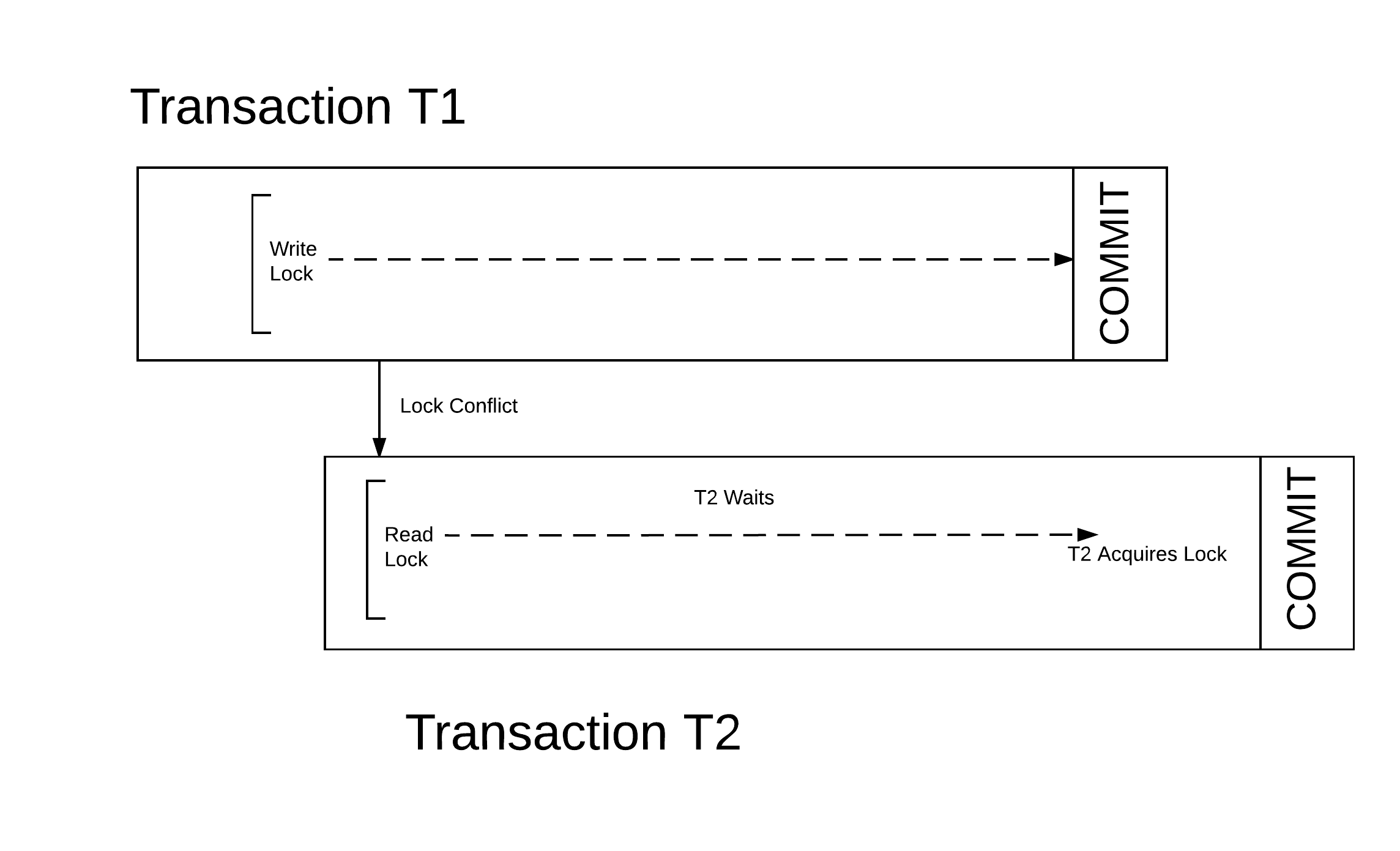 Atomicity between two transaction , once transaction T1 acquires the write lock transaction T2 has to wait before T1 commits